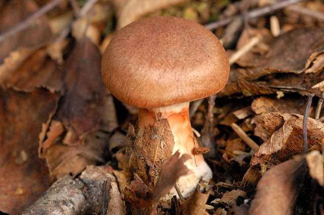 Cortinarius cinnamomeus from Commanster, Belgian High Ardennes .